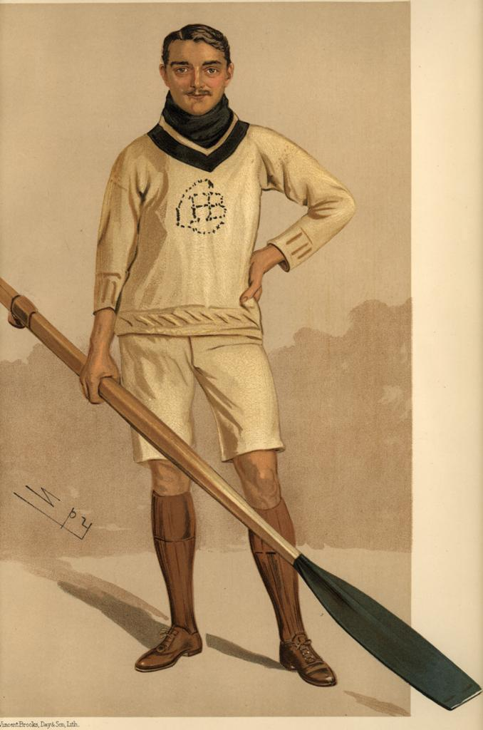 Hugh Benjamin Cotton (1872-1895), "Benjie," Spy, Vanity Fair, 15 Mar 1894